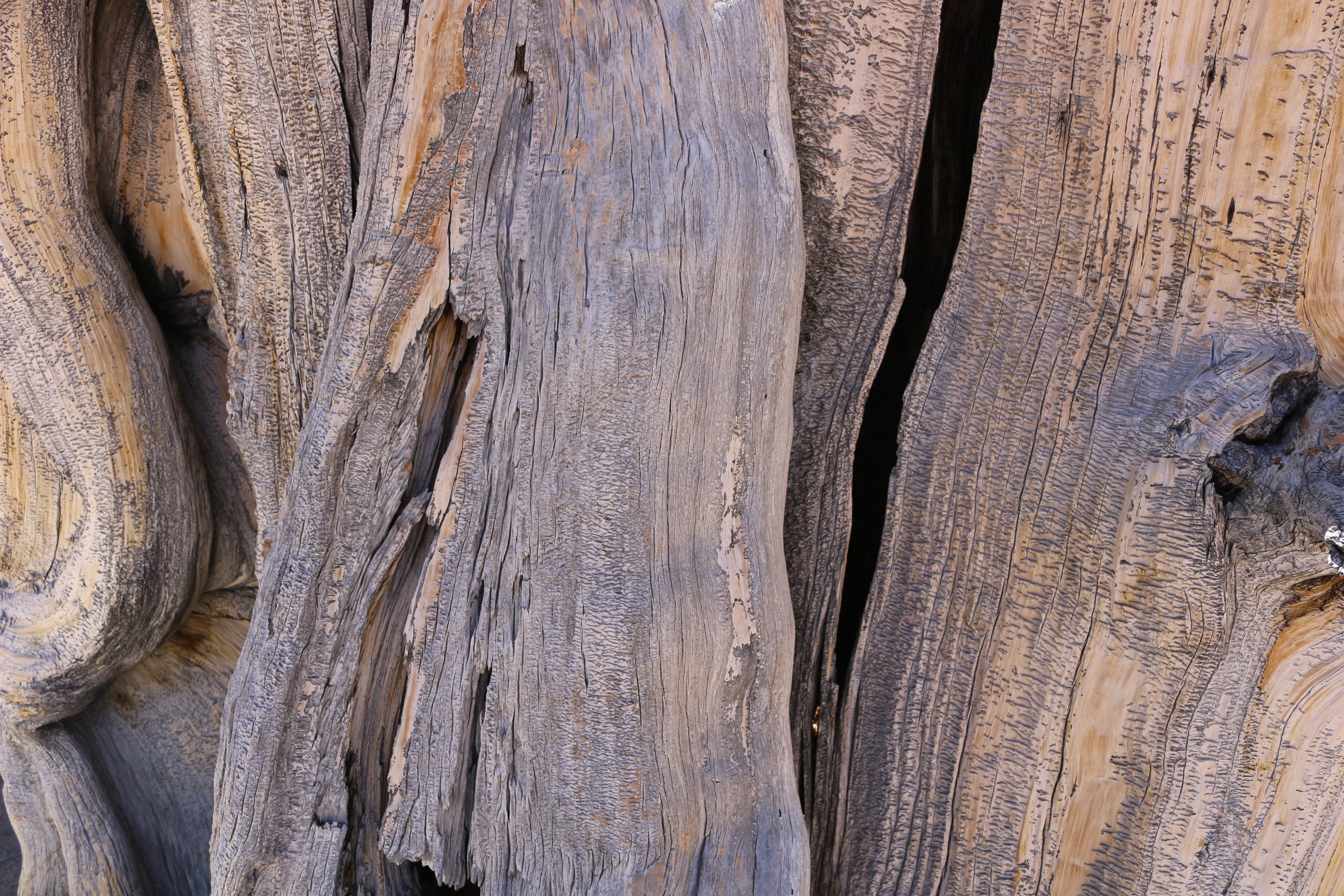 Utah, Cedar Breaks National Monument, Great Basin Bristlecone Pine, bark